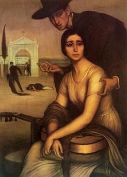 The Woman from Málaga by Julio Romero de Torres.